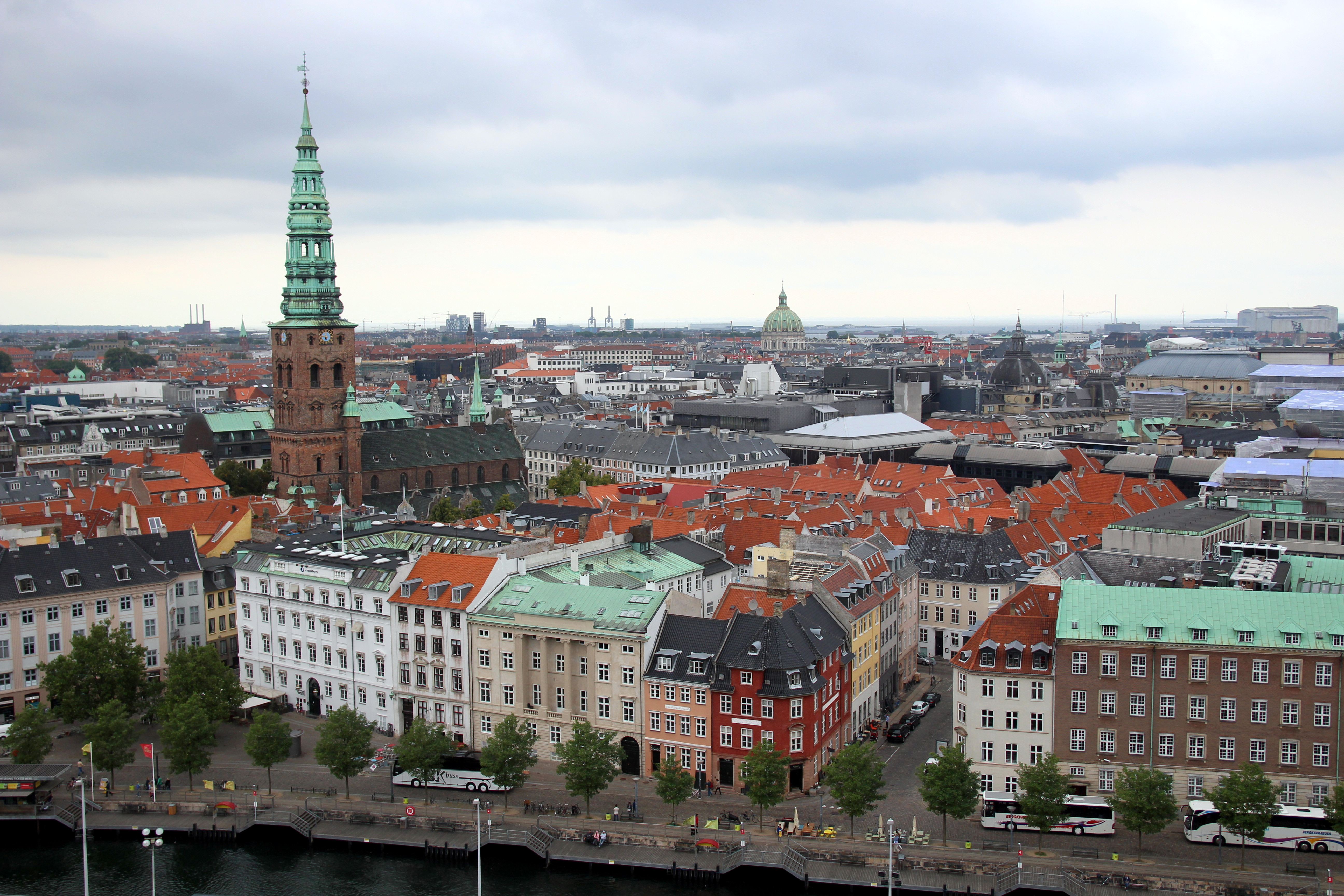 The canalfront public Space Ved Stranden in Copenhagen, Denmark as seen from Christiansborg's Tower.